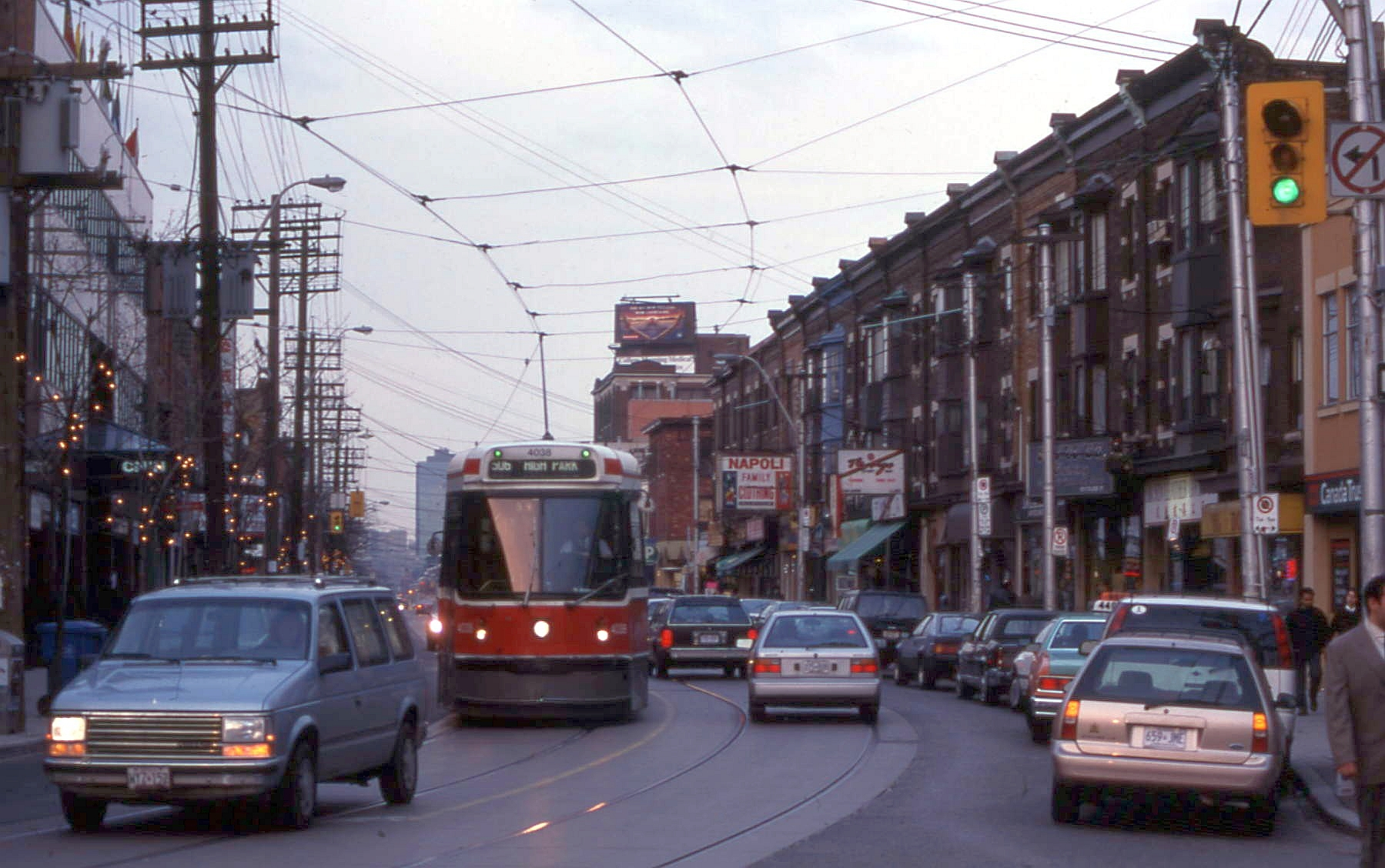 19970422 14 TTC CLRV College St. @ Montrose Ave.